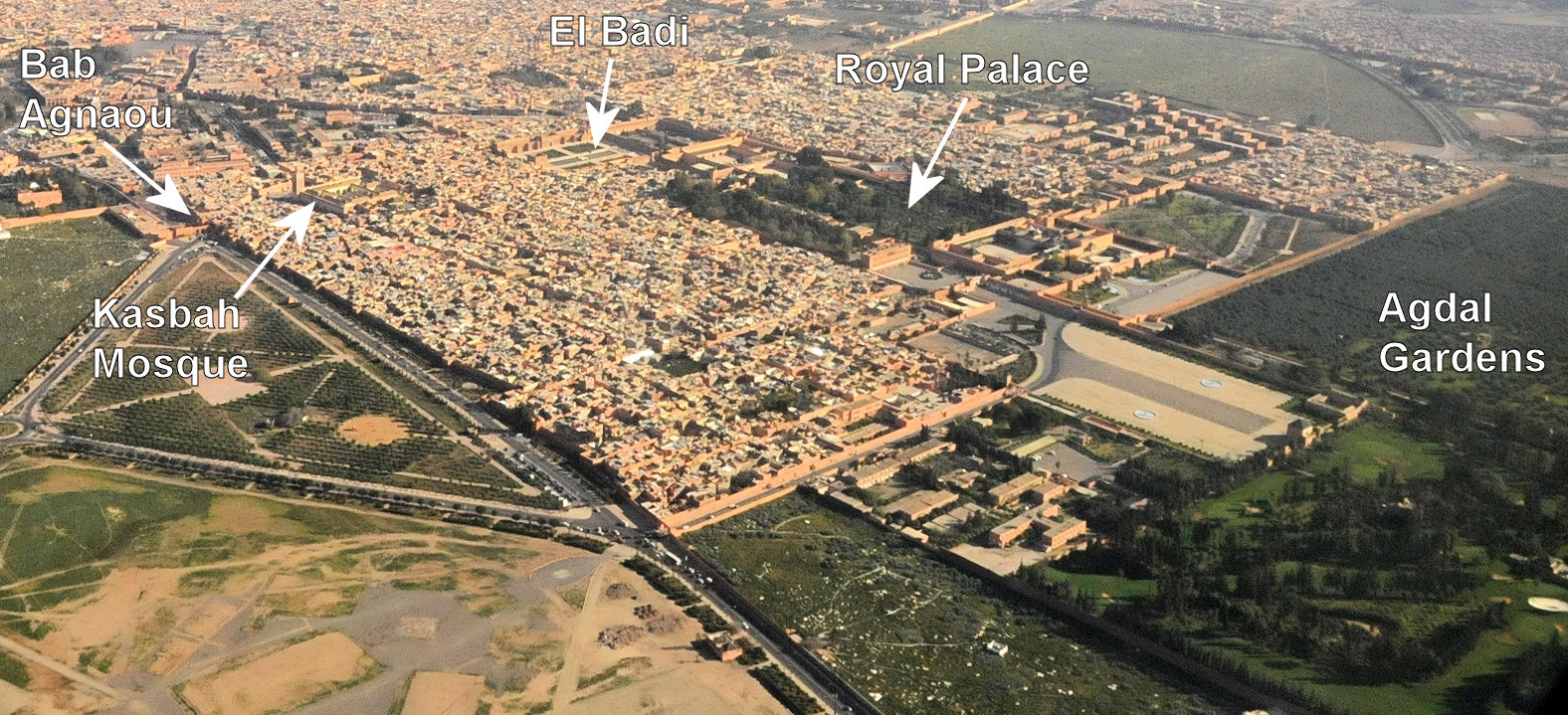 An aerial view of the Kasbah of Marrakech from the south/southwest, with the main landmarks pointed out. (The Royal Palace is quite large but distinctive here: it includes large gardens and open squares, contrasting with the crowded residential buildings in the rest of the district.)